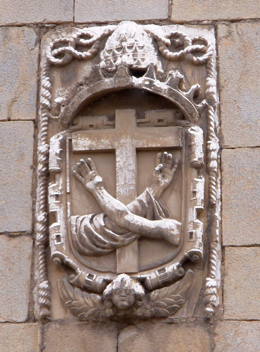 Escudo de la orden franciscana en la fachada del Convento de San Francisco de Alfaro